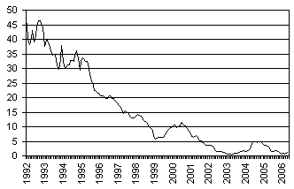 Inflation in Poland (% year/year)